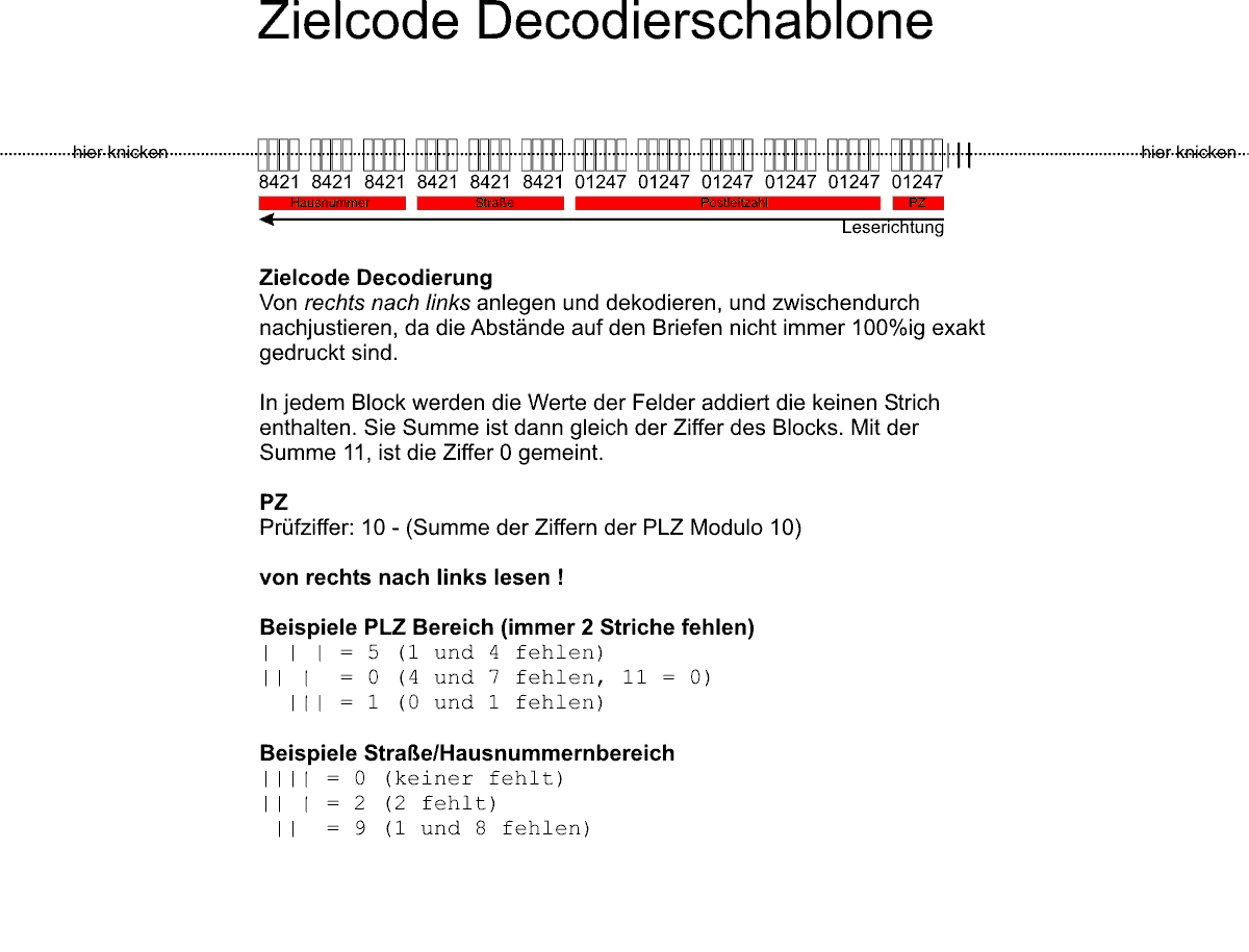 Helper to decode the destination code printed on letters by the german postal service (Deutsche Post)